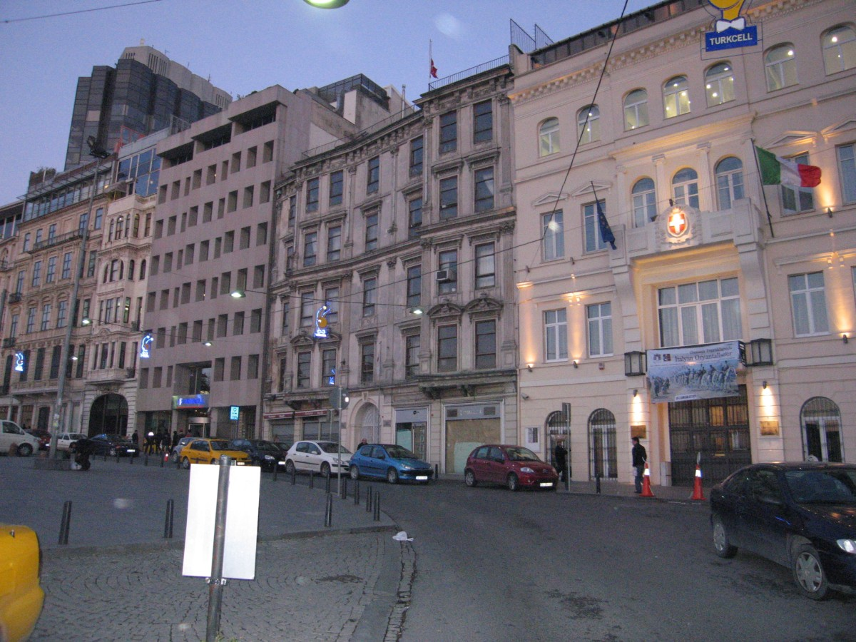 Old buildings in Tepebaşı, a neighborhood of Beyoğlu district in Istanbul, Turkey.